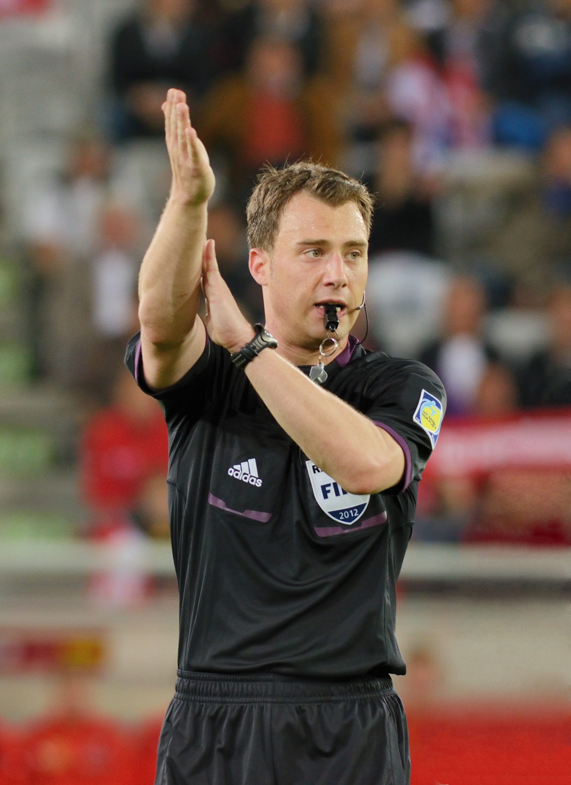 Exhibition game Austria vs. Ukraine at 1st. June 2012, here: referee Felix Zwayer